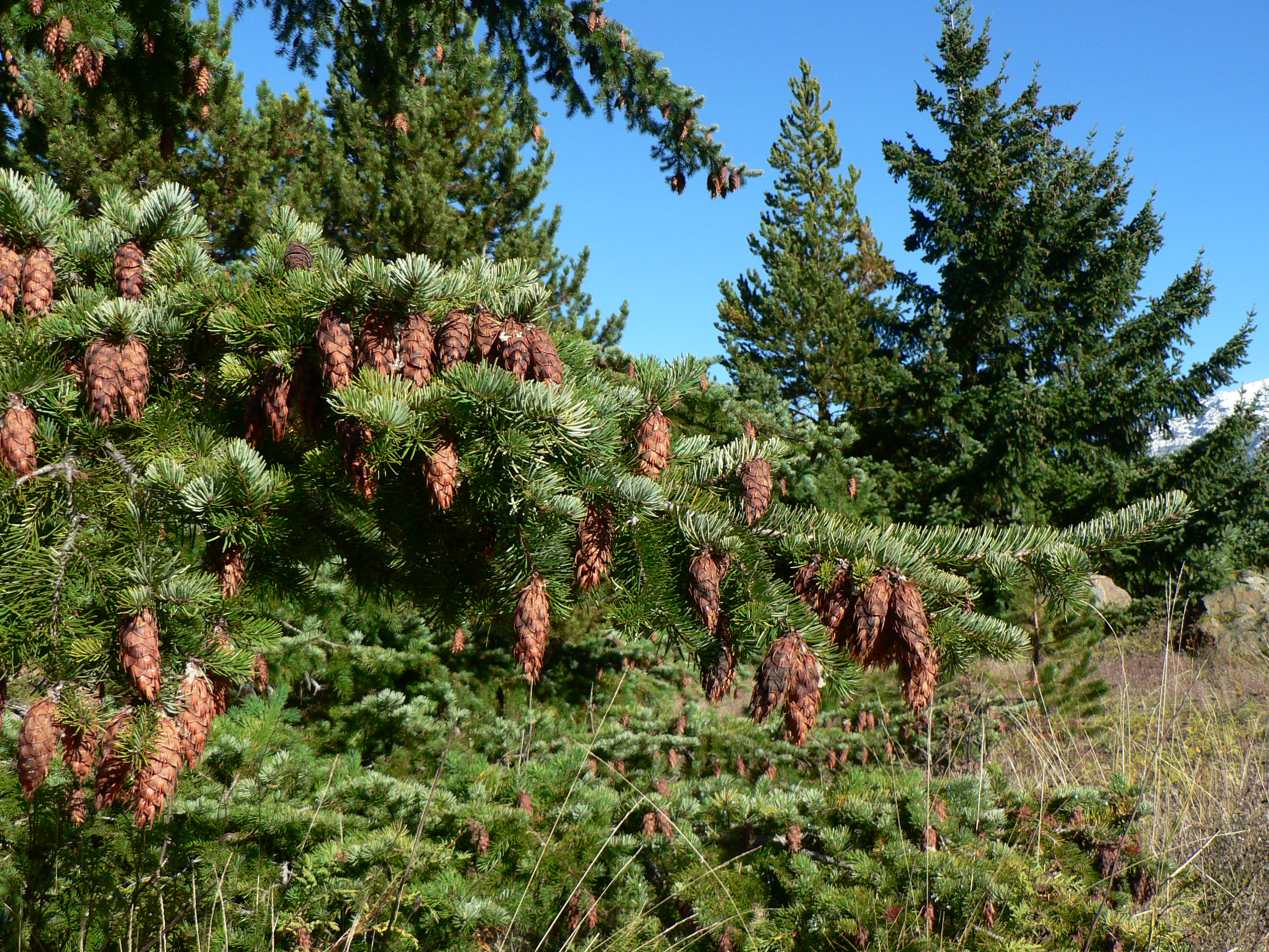 Coast Douglas-fir